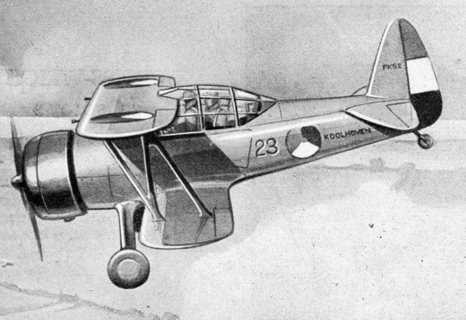 Koolhoven FK-52 photo from Le Pontential Aérien Mondial 1936